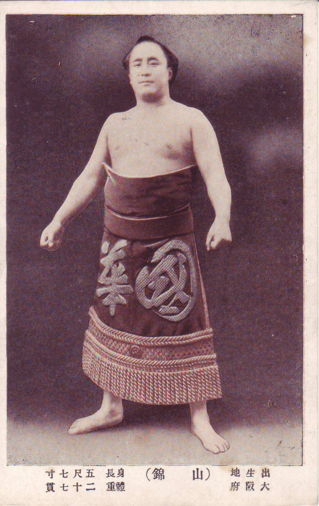 Postcard of Yamanishiki Zenjiro (sumo wrestler. Sekiwake).